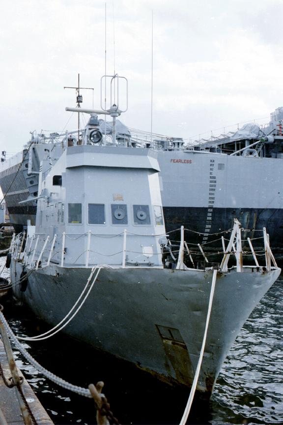 Hms Tiger Bay in the UK